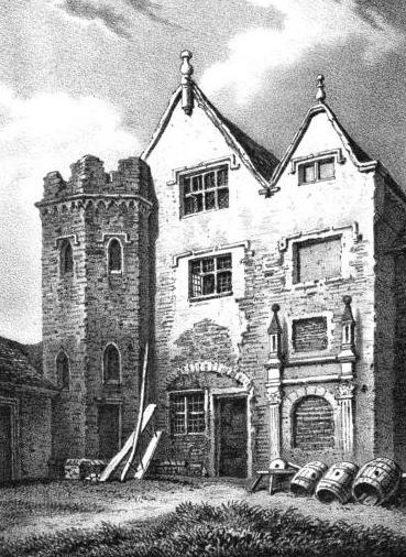 Fincham Hall - one of the houses in Norfolk inherited by Sir Francis Gawby in the 16th century.